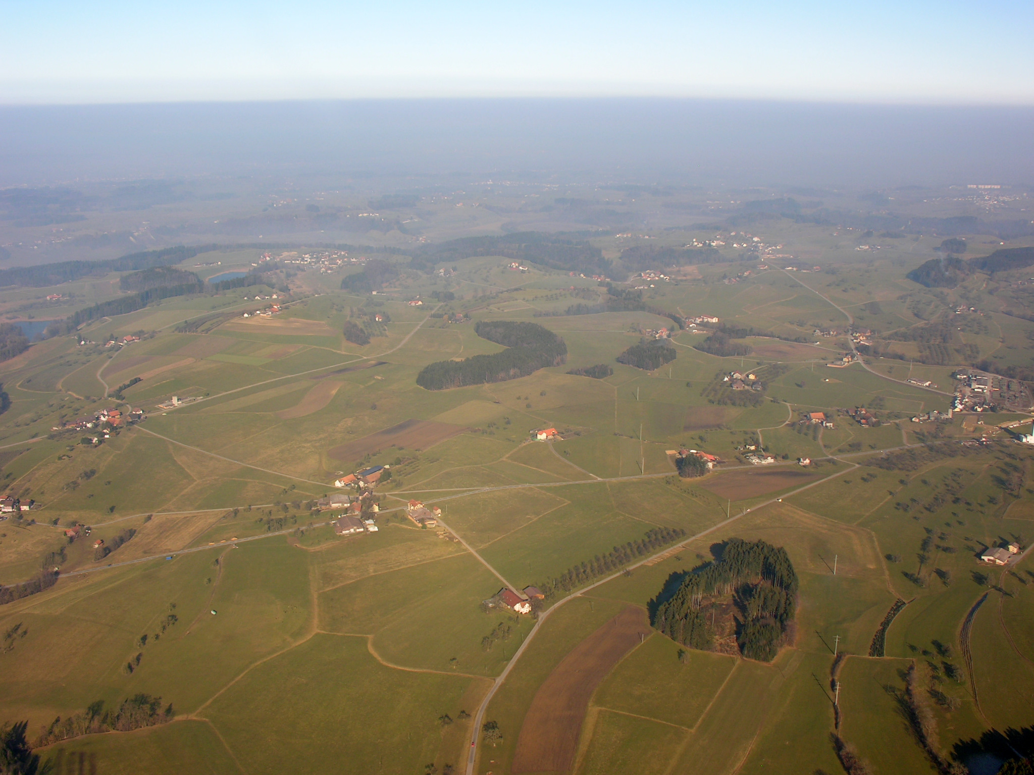 Aerial View overhead Gossau